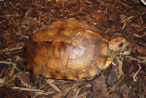 Pyxidea mouhotii mouhotii female